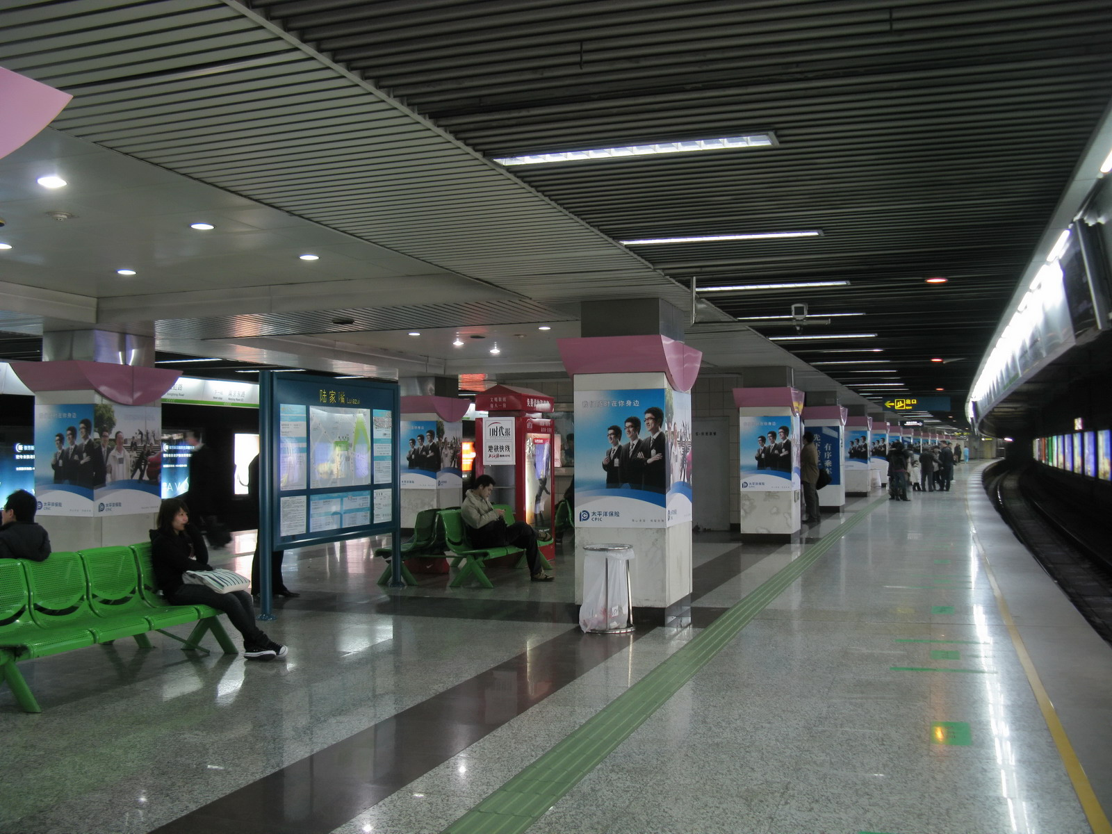 Line 2 Platform of Lujiazui Station